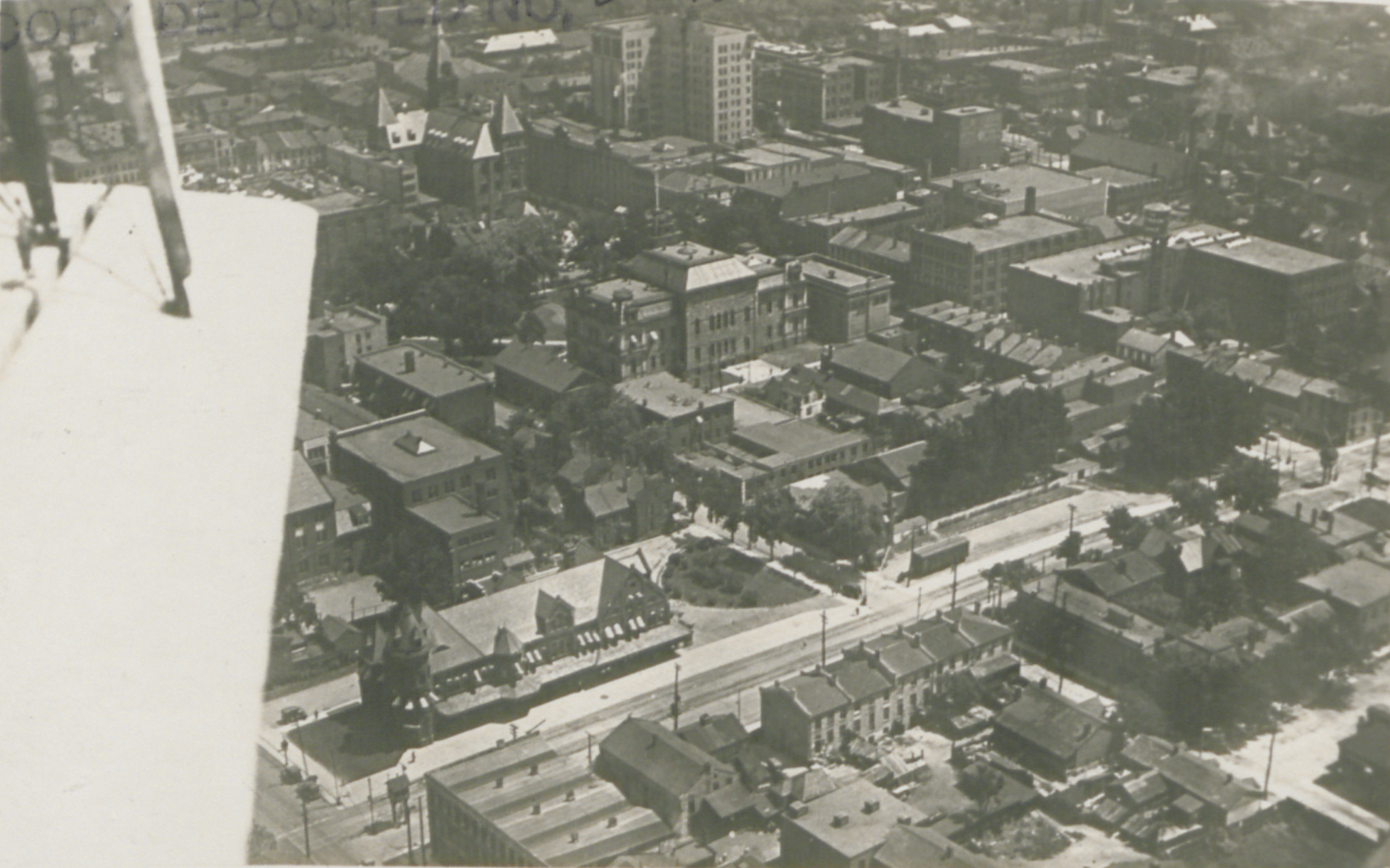 Original caption: “Hamilton Ontario from the Air.”